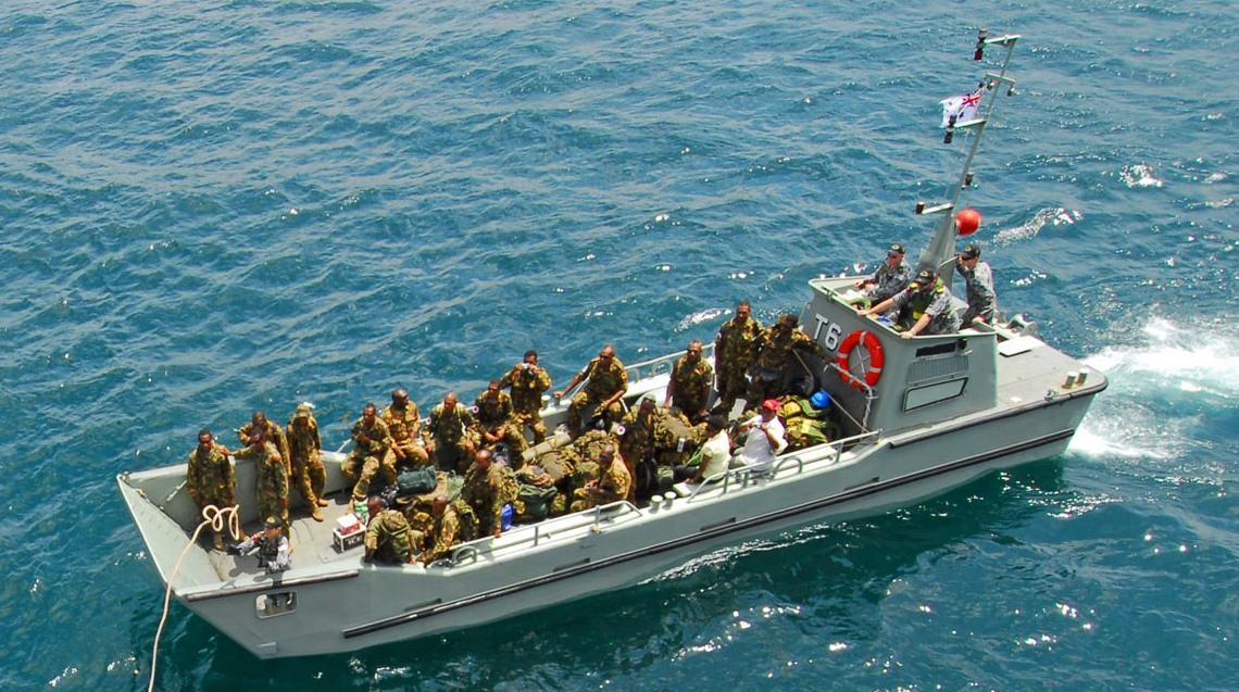 A Royal Australian Navy LCVP viewed from above.